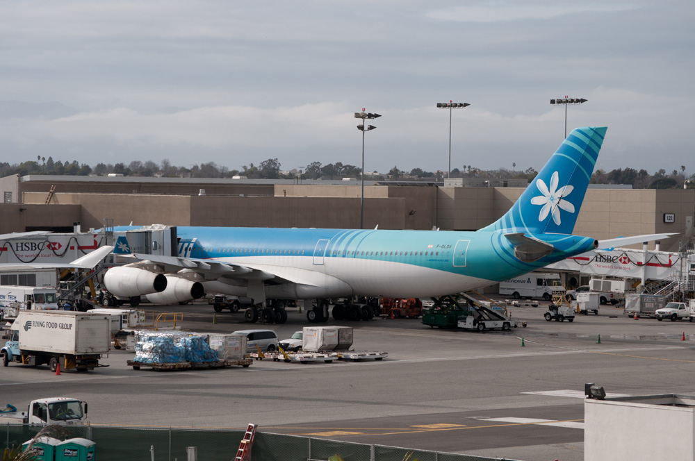 Air Tahiti Nui is a frequent sight at LAX. Its services from Tahiti to Paris make a refueling stop here at LAX. Flying Air Tahiti Nui's Fifth Freedom service to Paris can be a cheaper alternative to Air France, whose own Paris-Tahiti runs also stop at LAX. F-OLOV, Airbus A340-300